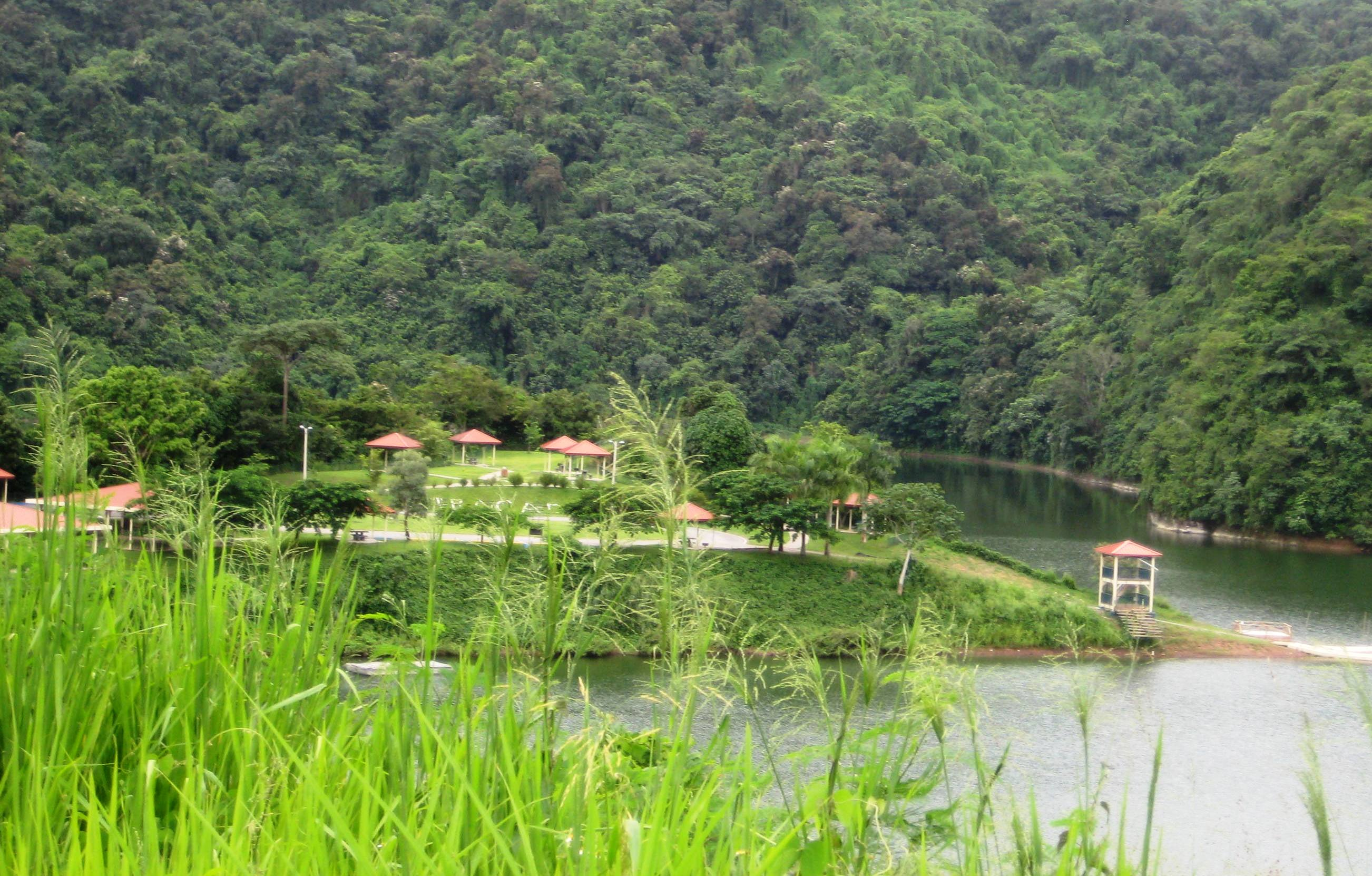 Lake Cerrillos park in Ponce Puerto Rico